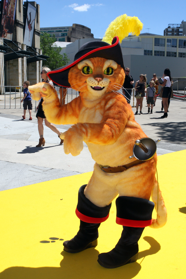 Puss in Boots mascot at Puss in Boots premiere at Moore Park, Fox Studios in Sydney, Australia.